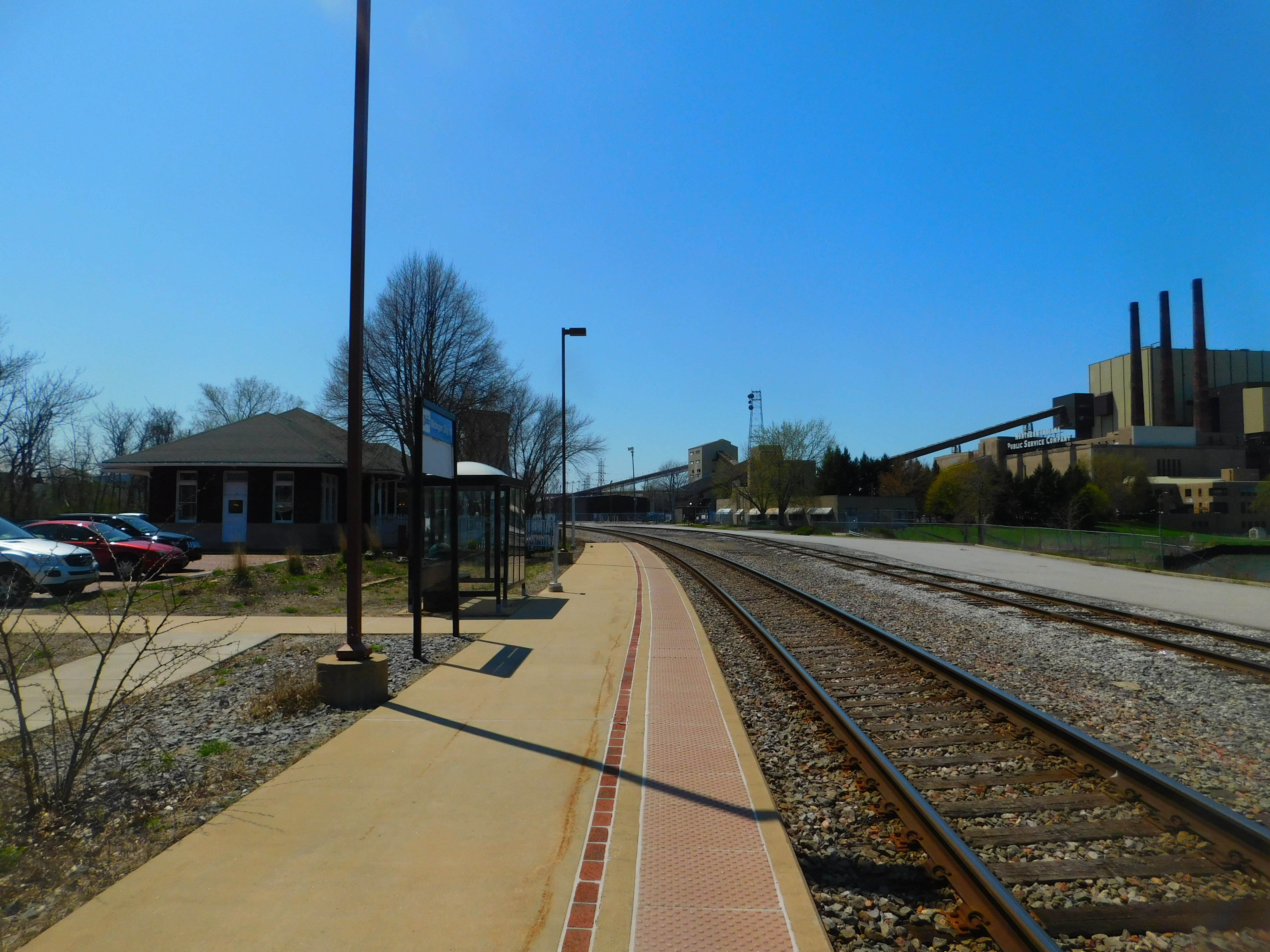 Michigan City station in April 2016